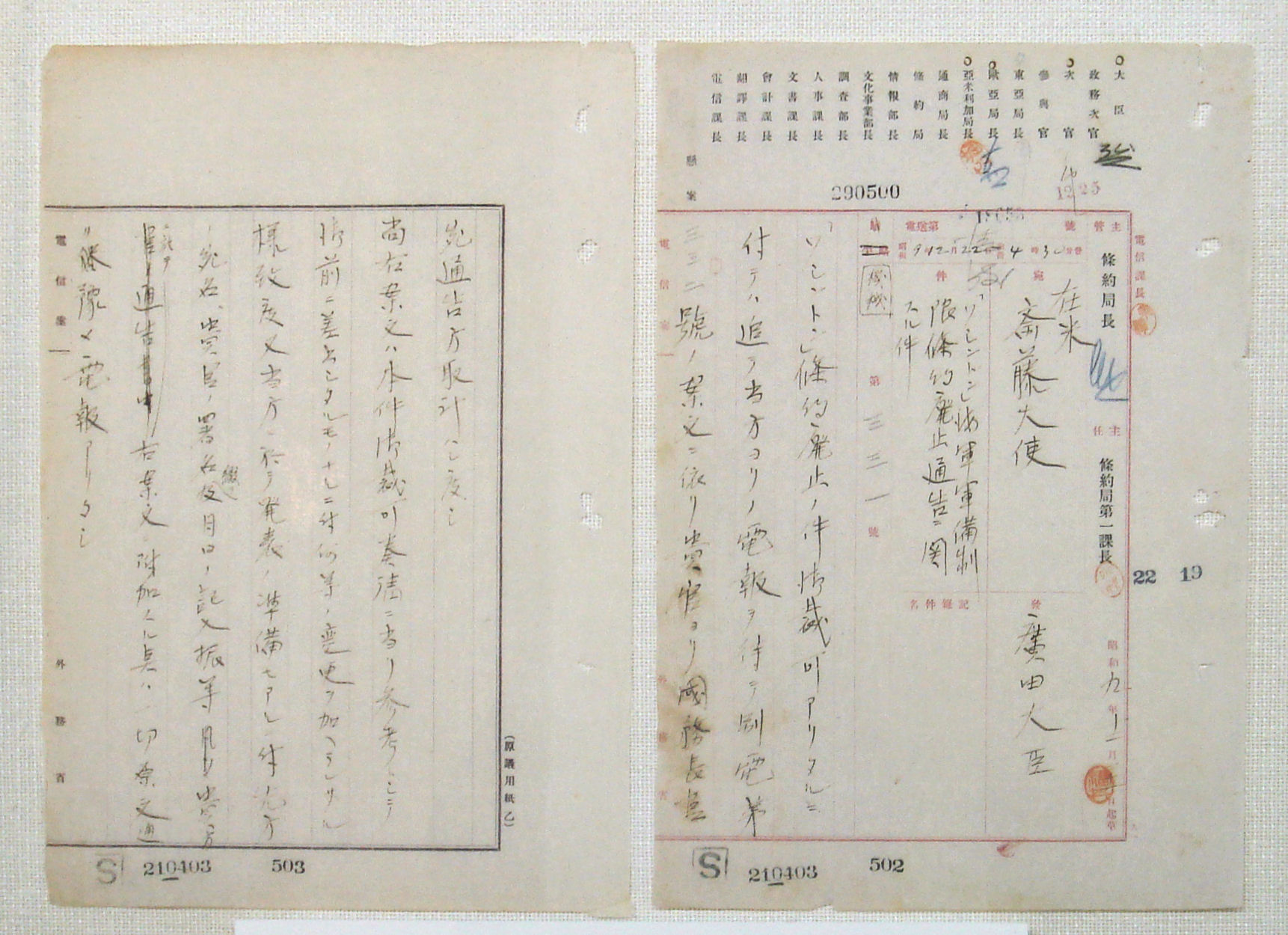 Japanese_denonciation_of_the_Washington_Treaty_29_December_1934.